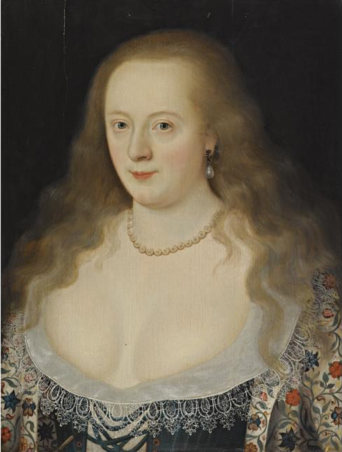 Portrait of Frances Howard, Countess of Hertford, later Countess of Richmond and Duchess of Richmond and Lennox (1578-1639)